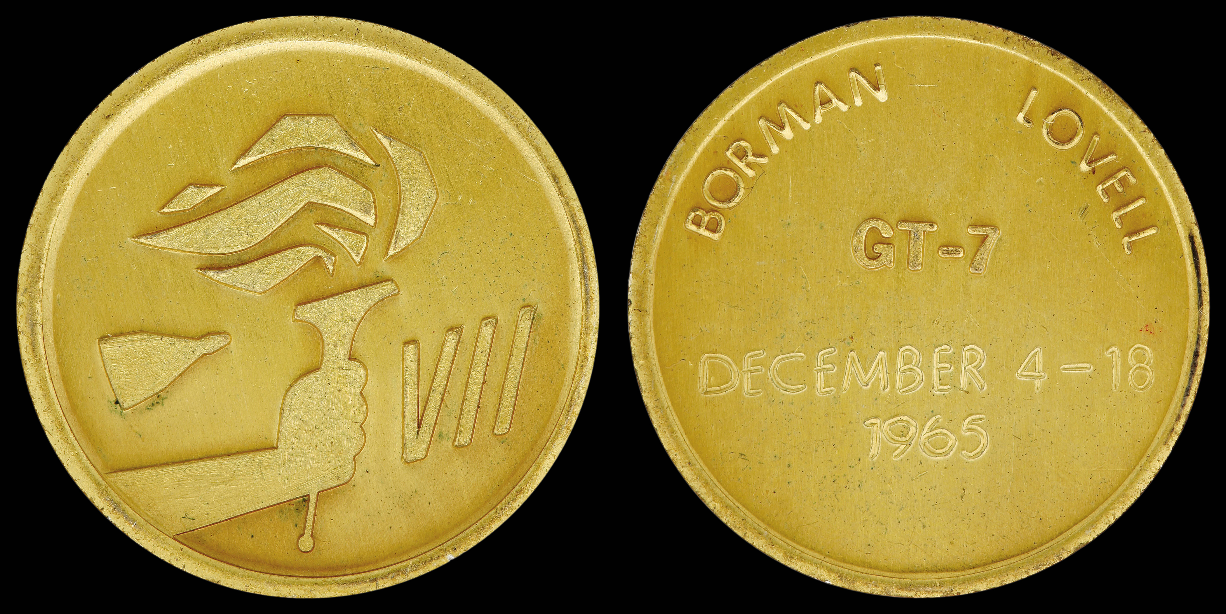 Gemini 7 Flown Fliteline Gold-Plated Sterling Silver Medallion(669-25289)